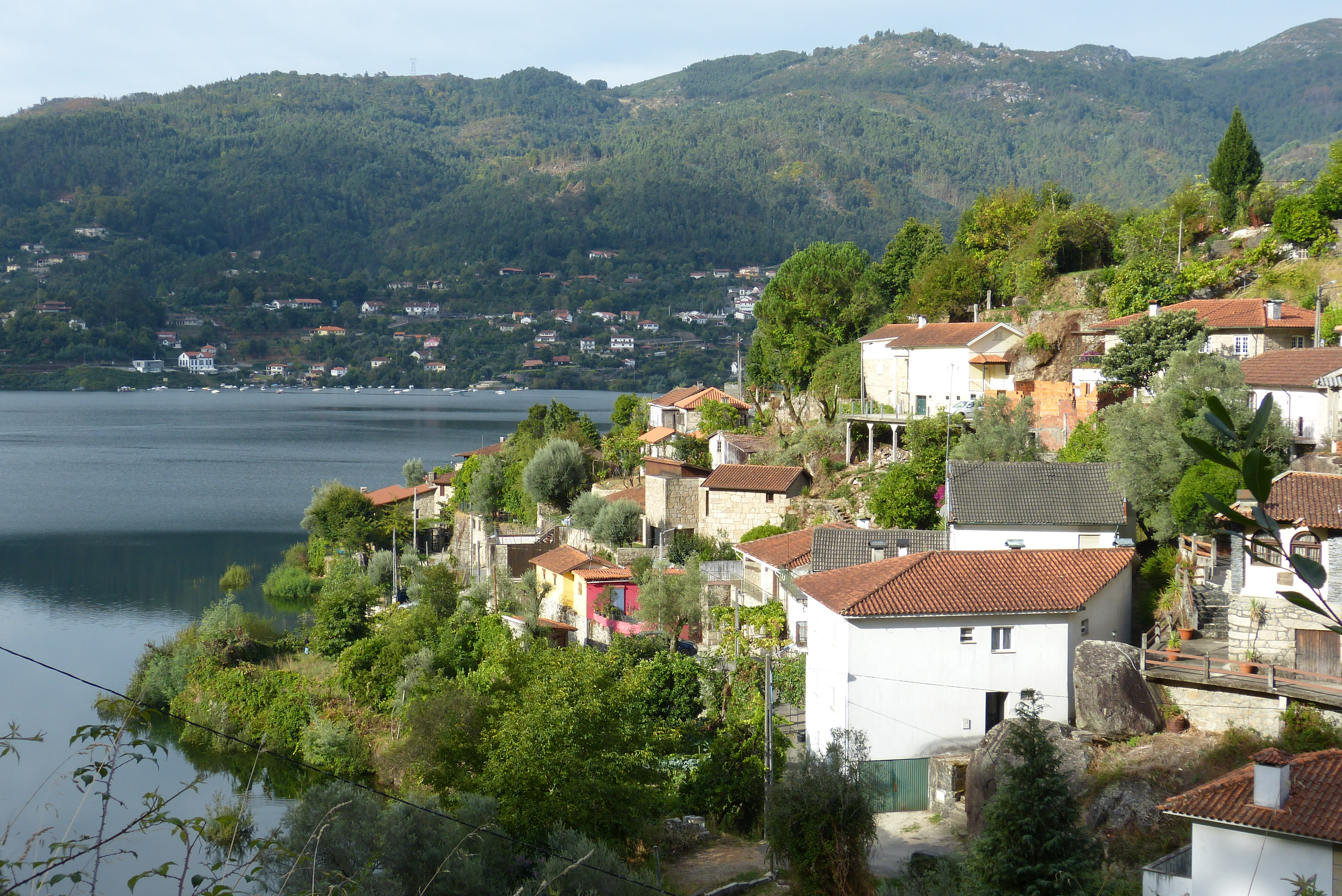 Vilar da Veiga and Rio Gerês, Portugal